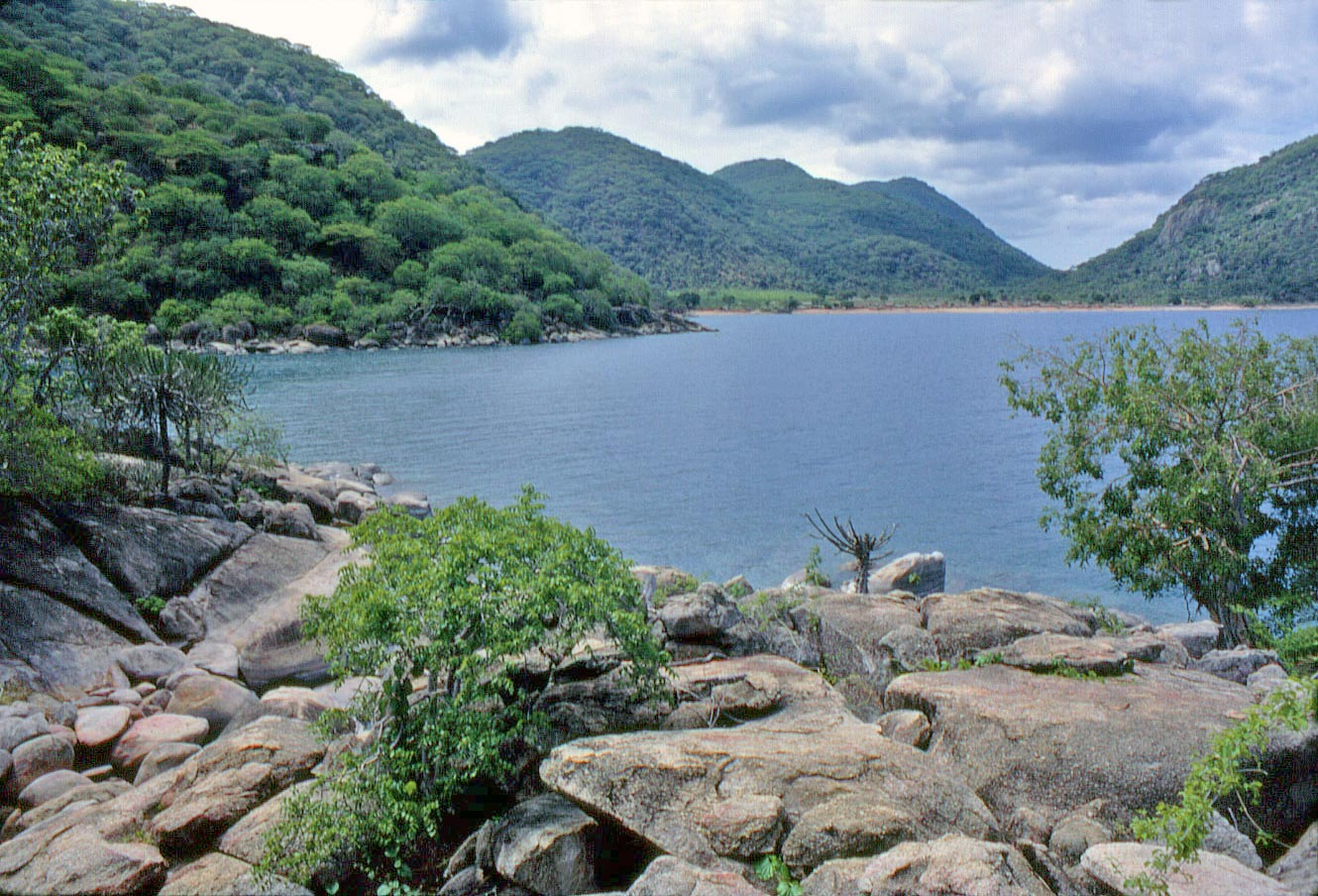 Own image of Lake Malawi 28 December 1967.